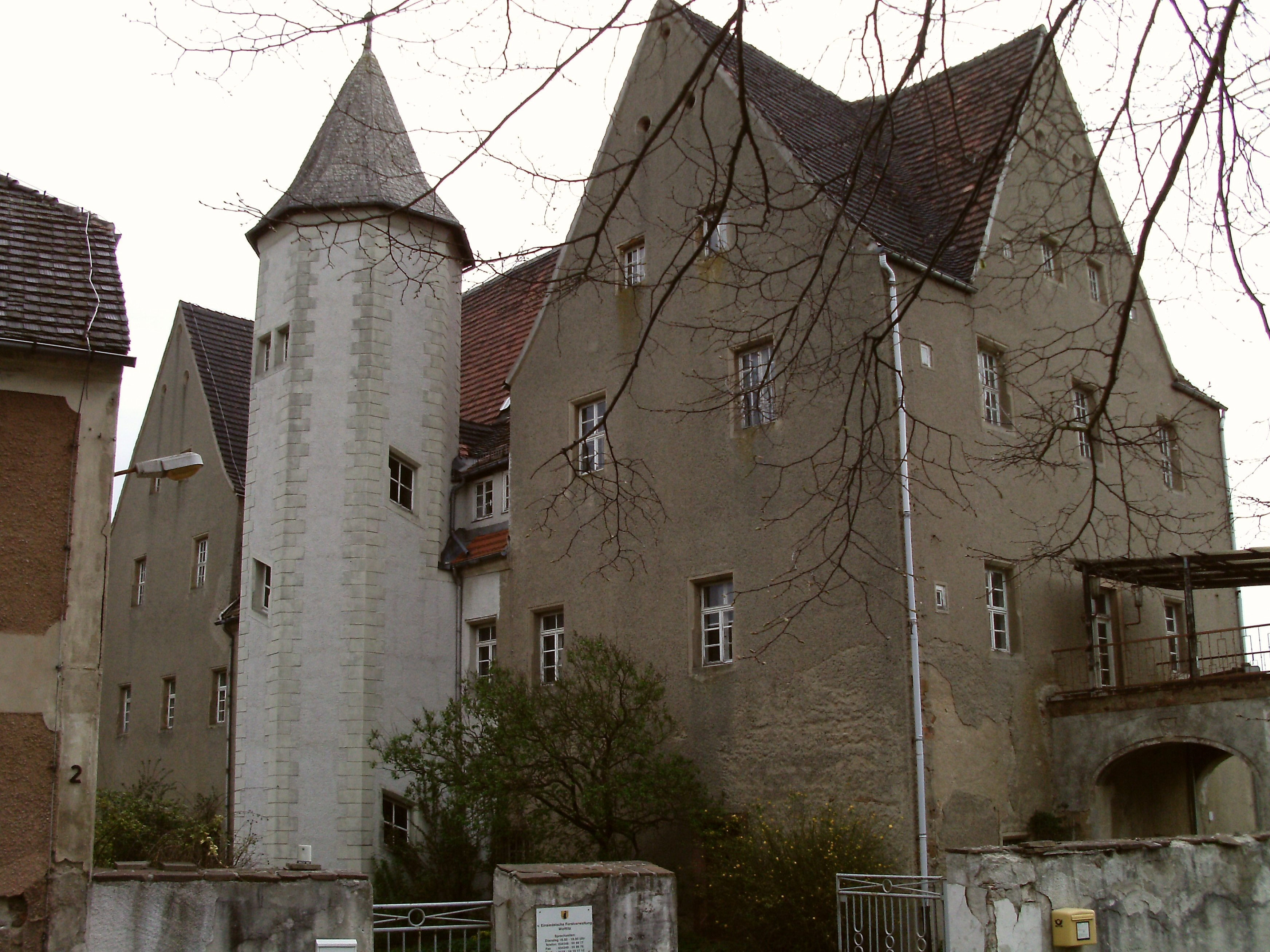 Wolftitz Castle in Streitwald (Frohburg, Leipzig district, Saxony)